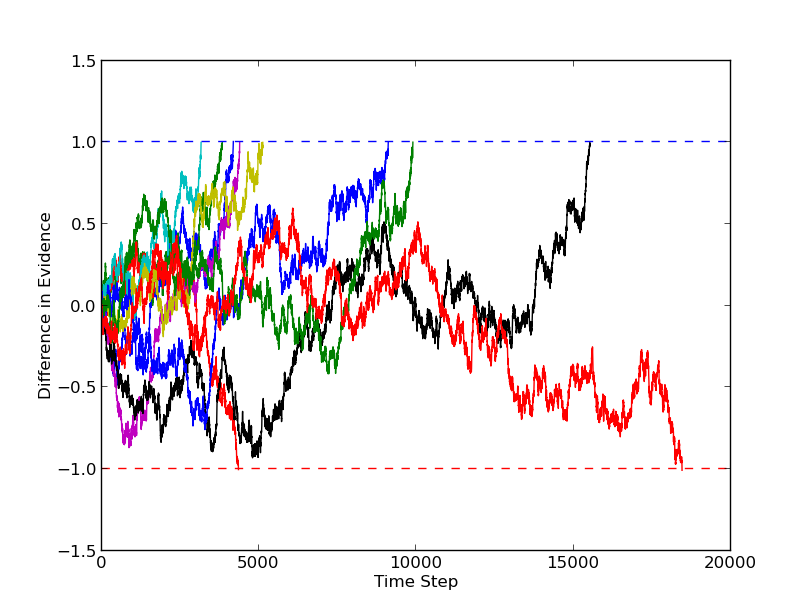 A graph showing the accumulation of evidence for a Drift Diffusion model in a two alternative forced choice task (2AFC).